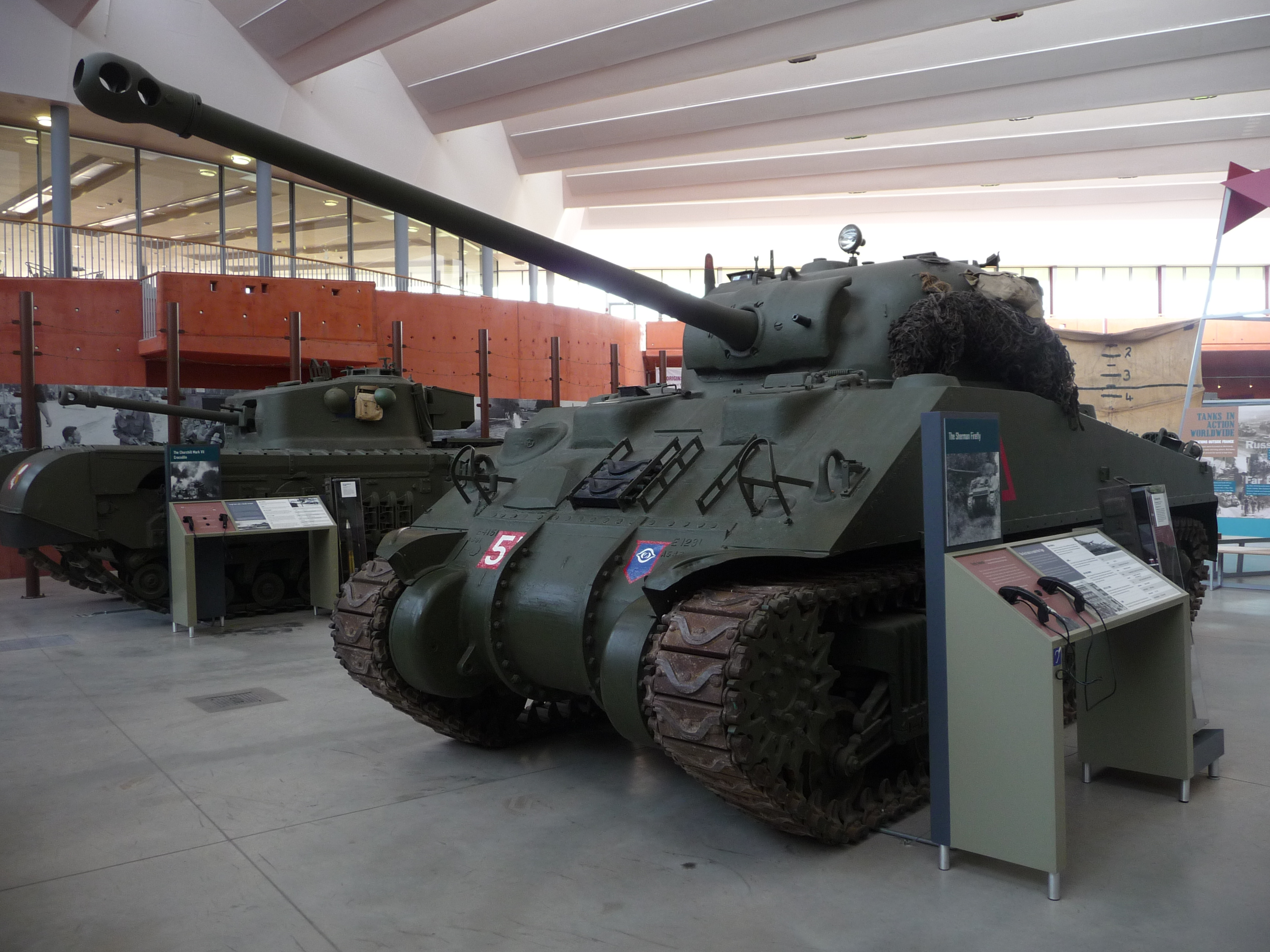 Sherman Firefly M4A4 Tank Medium (17 Pdr)